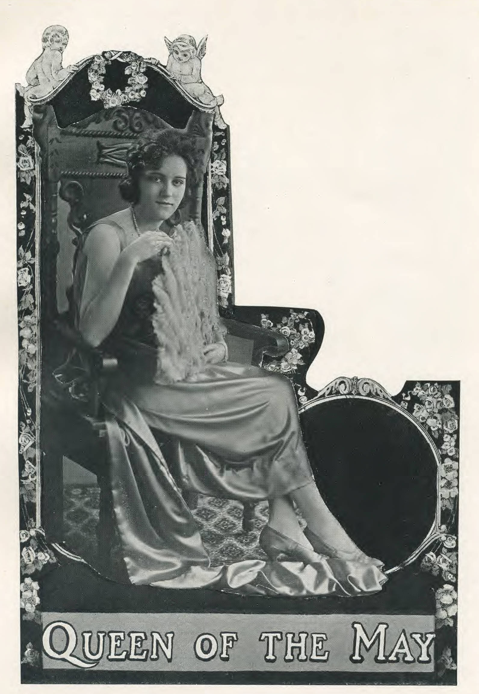 The Queen of the May featured in East Texas State Normal College's 1921 Locust yearbook.